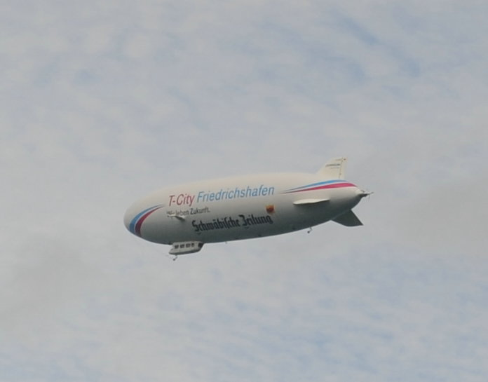 Zeppelin